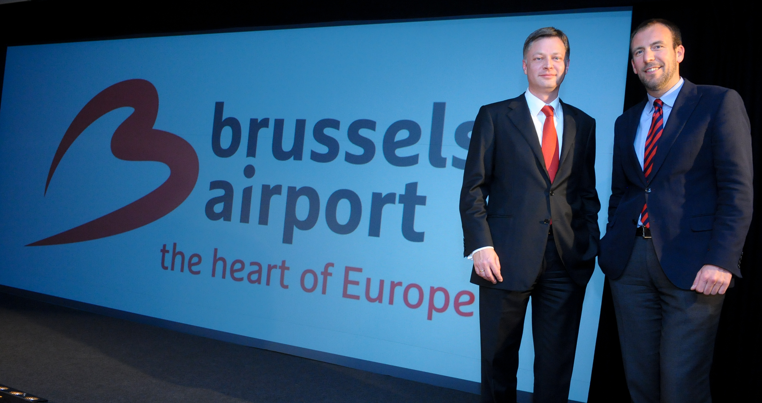 Brand launch Brussels Airport